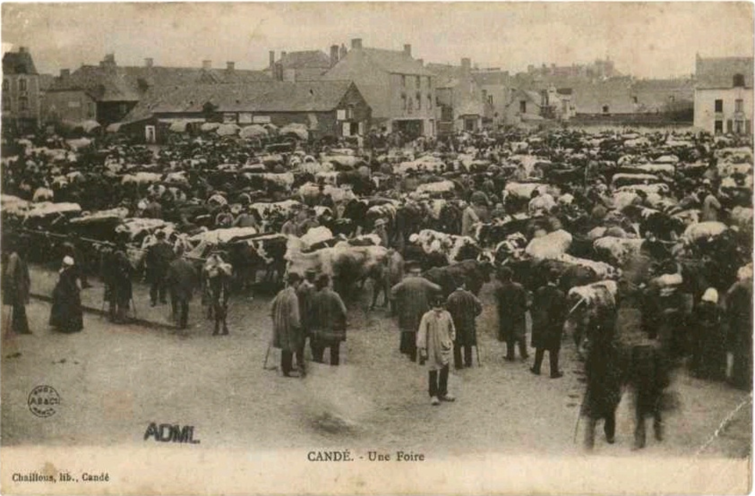 The cattle market in Candé, Maine-et-Loire, France